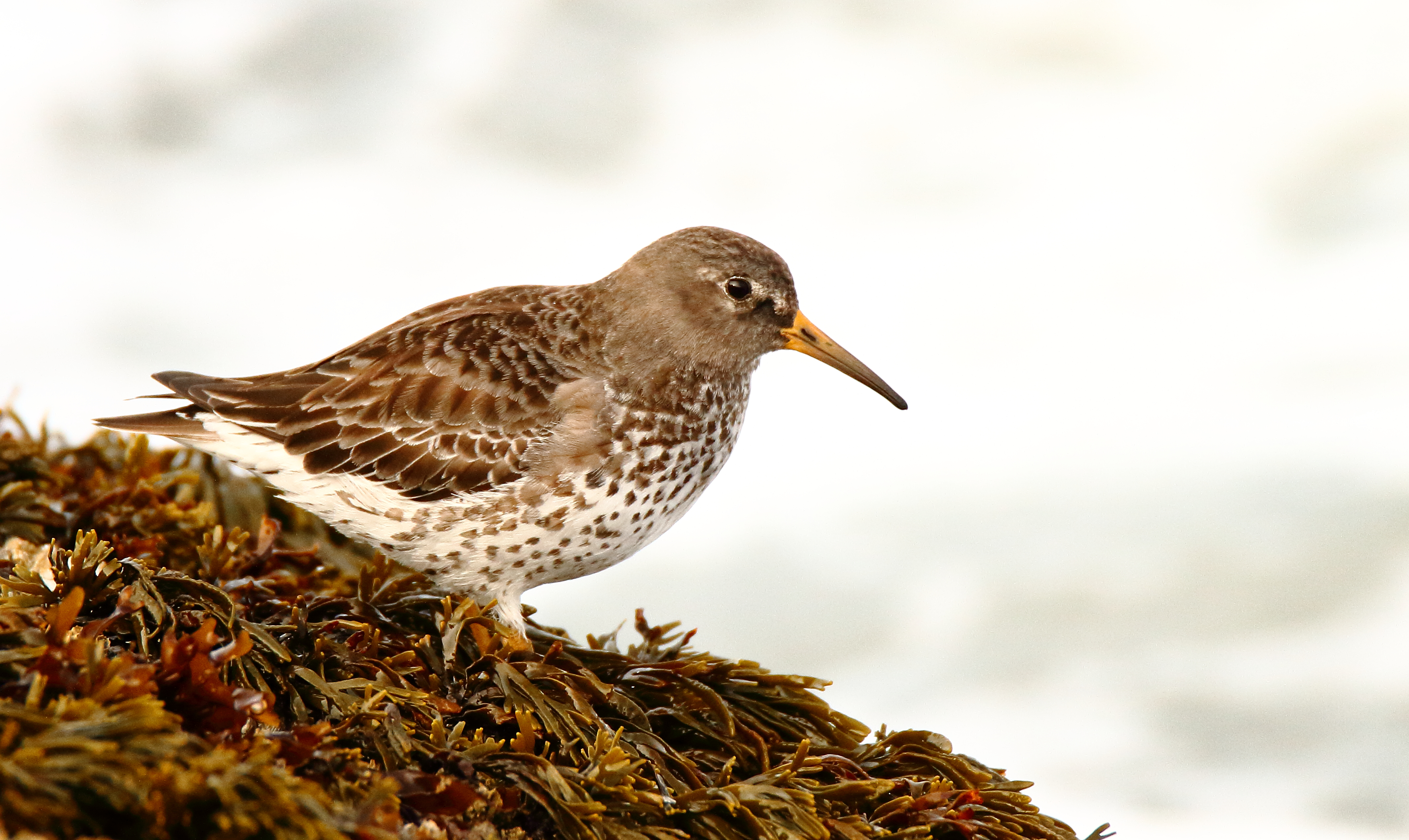 Rock Sandpiper in Humboldt County, California